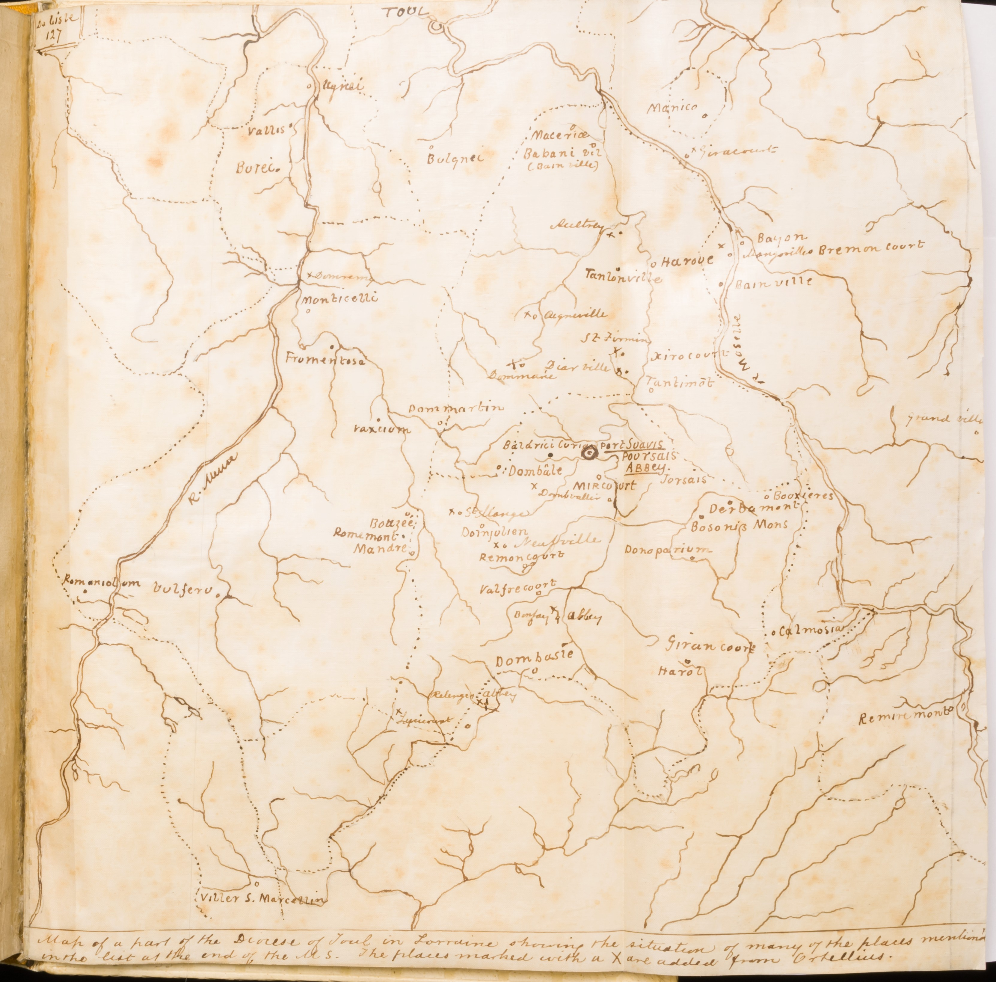 Carte des alentour de Toul, avec le nom des divers